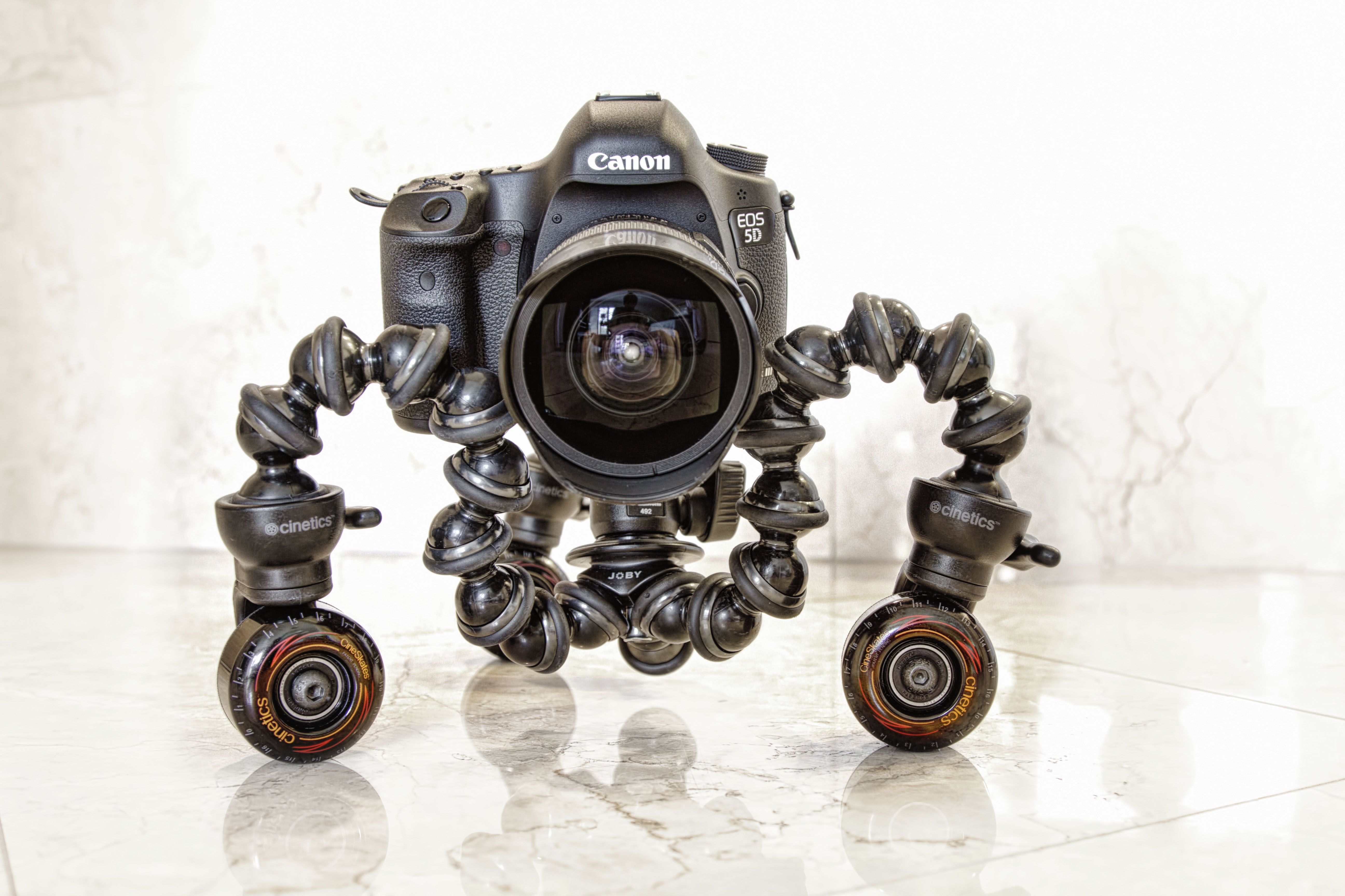 The CineSkates dolly system enables fluid tracking and arcing video.